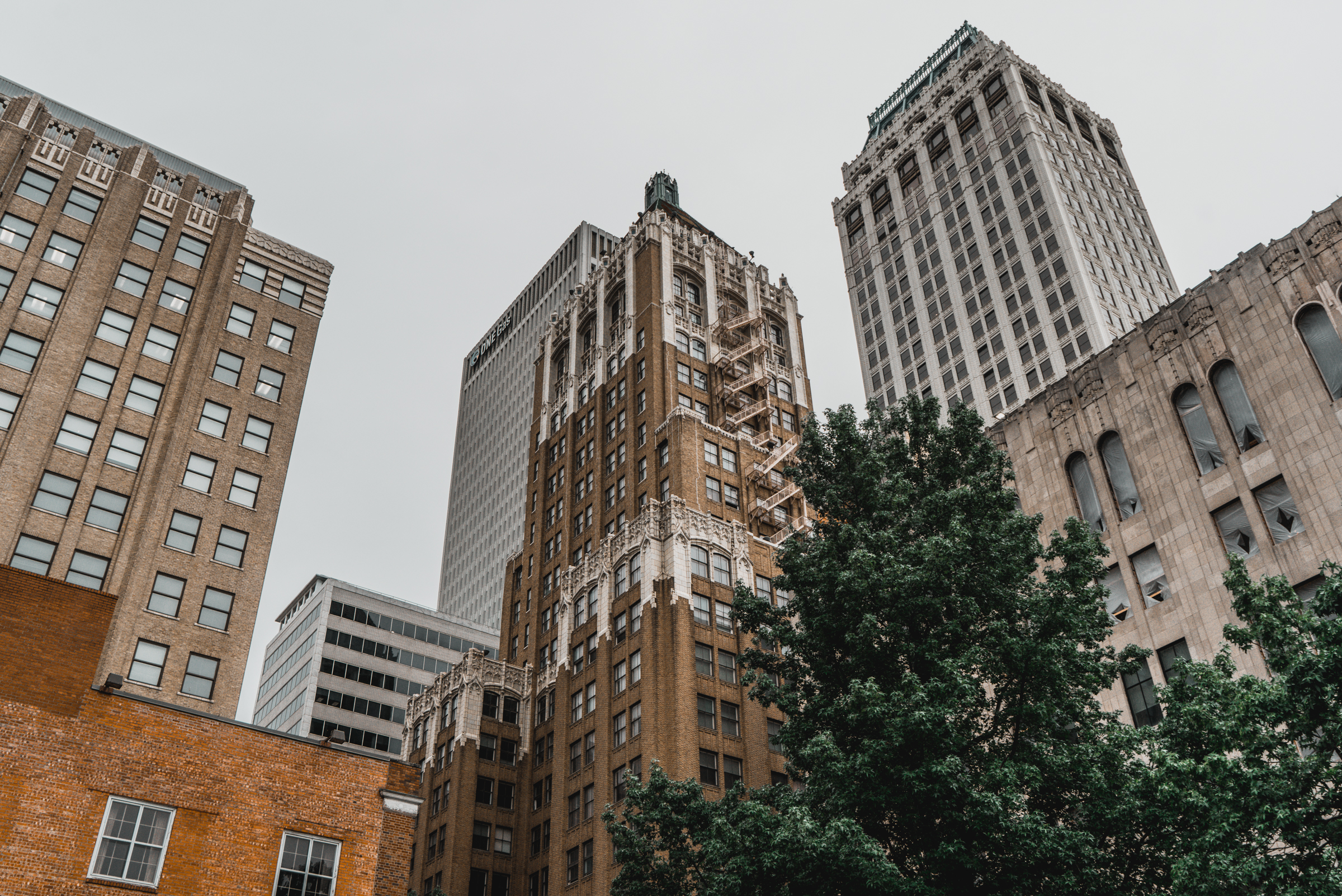 Centered in this photo is the Philtower Building in downtown Tulsa, Oklahoma.